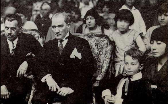 Mustafa Kemal (Atatürk) in Ankara on the Day of National Sovereignty (present-day the National Sovereignty and Children's Day). From left to right: Kâzım (Özalp), Mustafa Kemal (Atatürk), Ömer (İnönü), and Mevhibe (İnönü) on April 23, 1929.